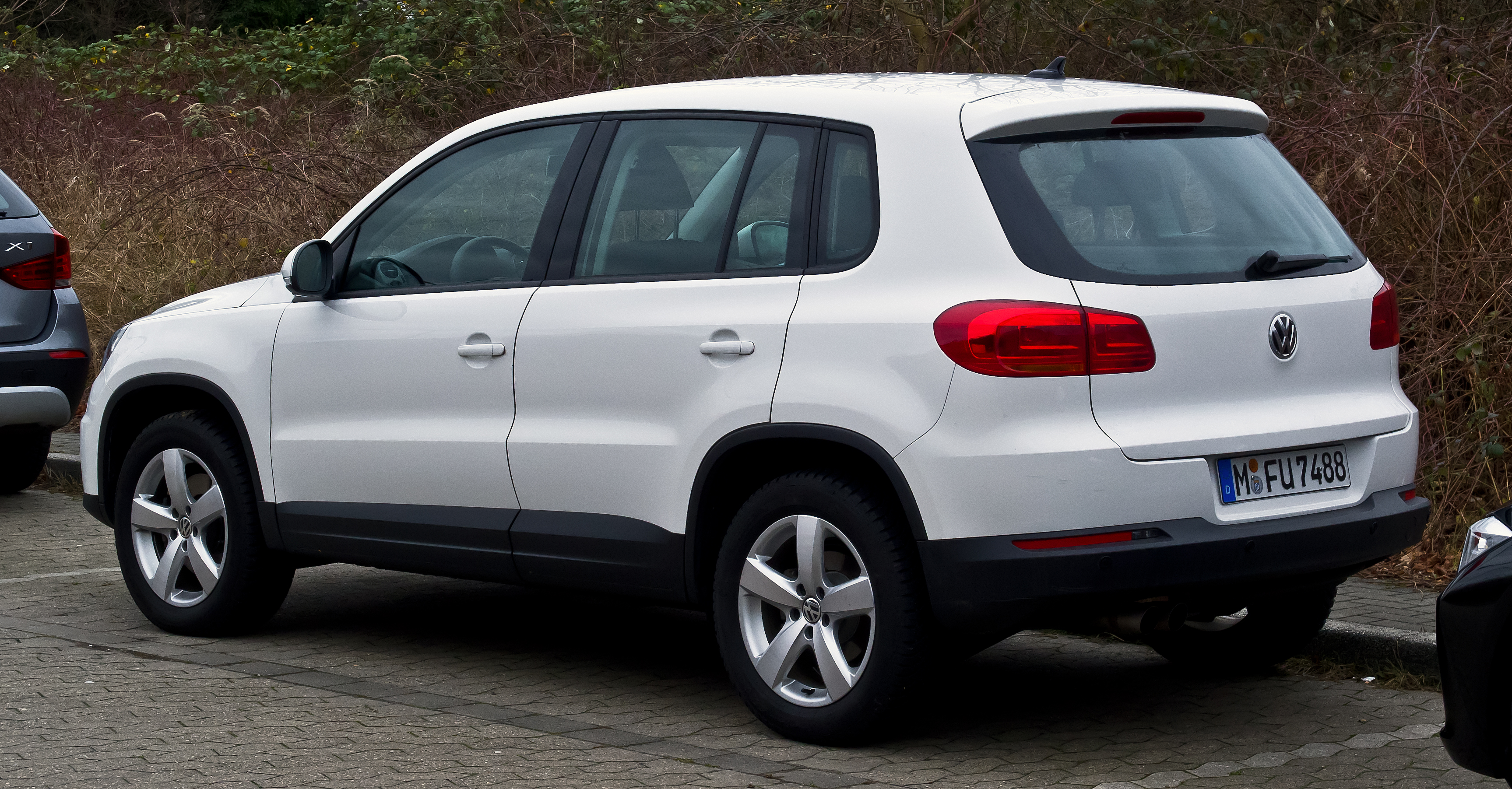 VW Tiguan Track & Field (Facelift)